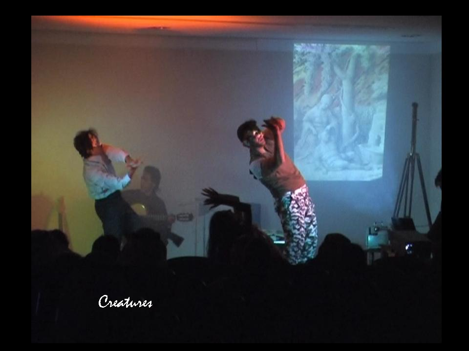 a show the Prophet by jibran khalil jibran Band ANTHROPOLOGY